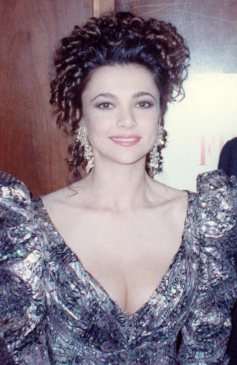 Photo of Emma Samms taken at the 62nd Academy Awards March 26, 1990 - Permission granted to copy, publish or post but please credit "photo by Alan Light" if you can.